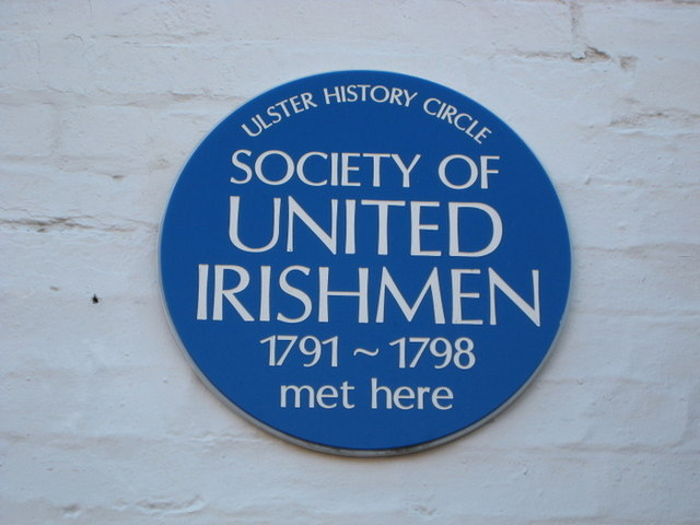 Blue Plaque to United Irishmen [2] A blue plaque marking Kelly's Cellars pub in Bank Street (see 721762) as a meeting place for the United Irishmen. See another example on a wall at St Malachy's College at 484099